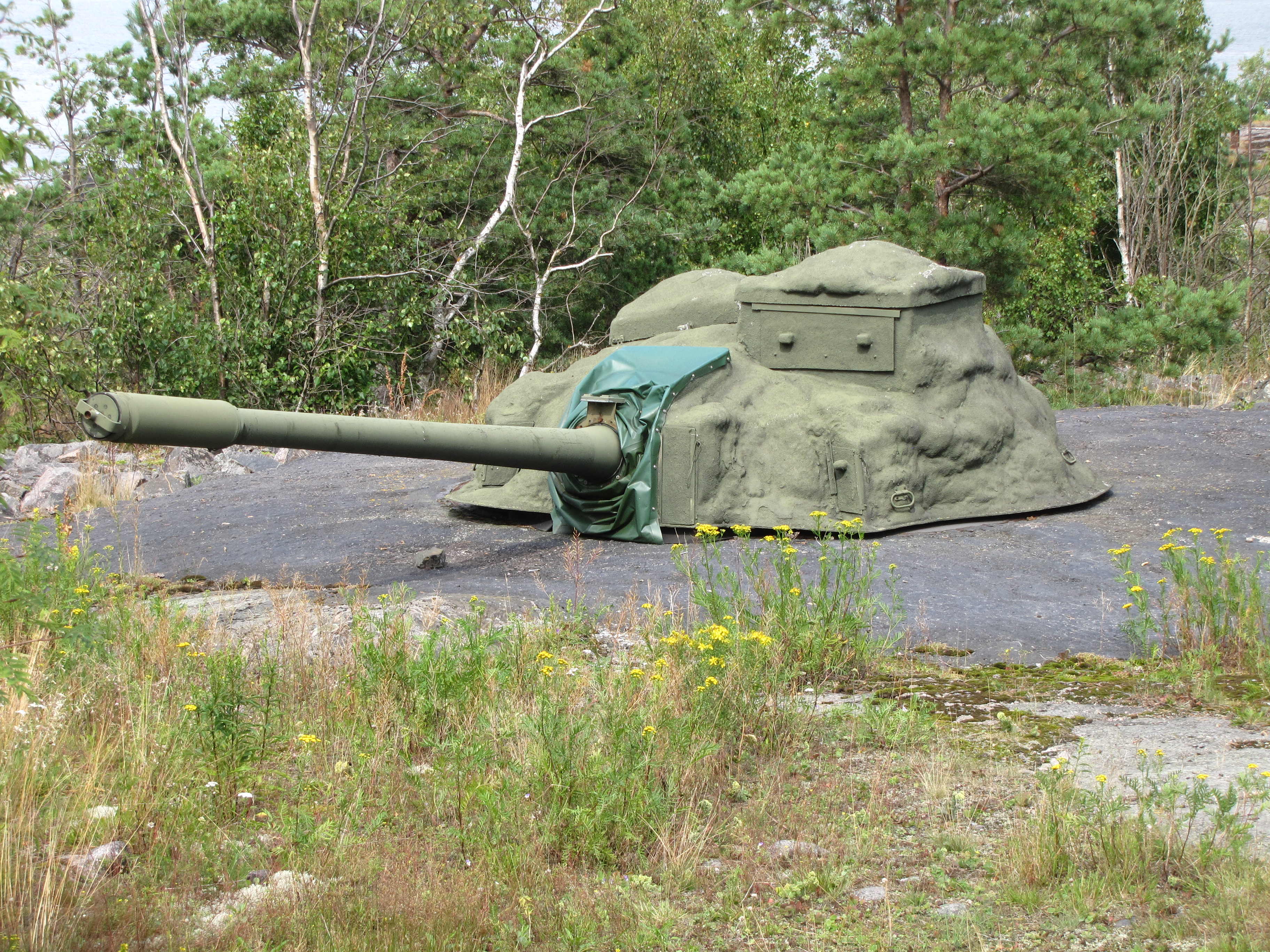 100 56 TK coastal artillery gun in Kuivasaari island. This gun is a modified T-55 turret used as coastal artillery.